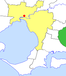 Location of the Shire of Pakenham within outer Melbourne.